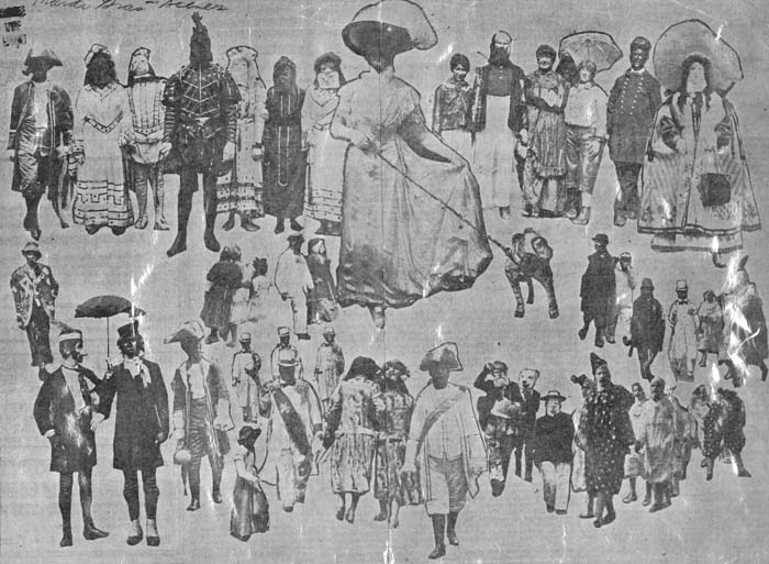 New Orleans Mardi Gras, 1910. "Some of the maskers on the street yesterday"